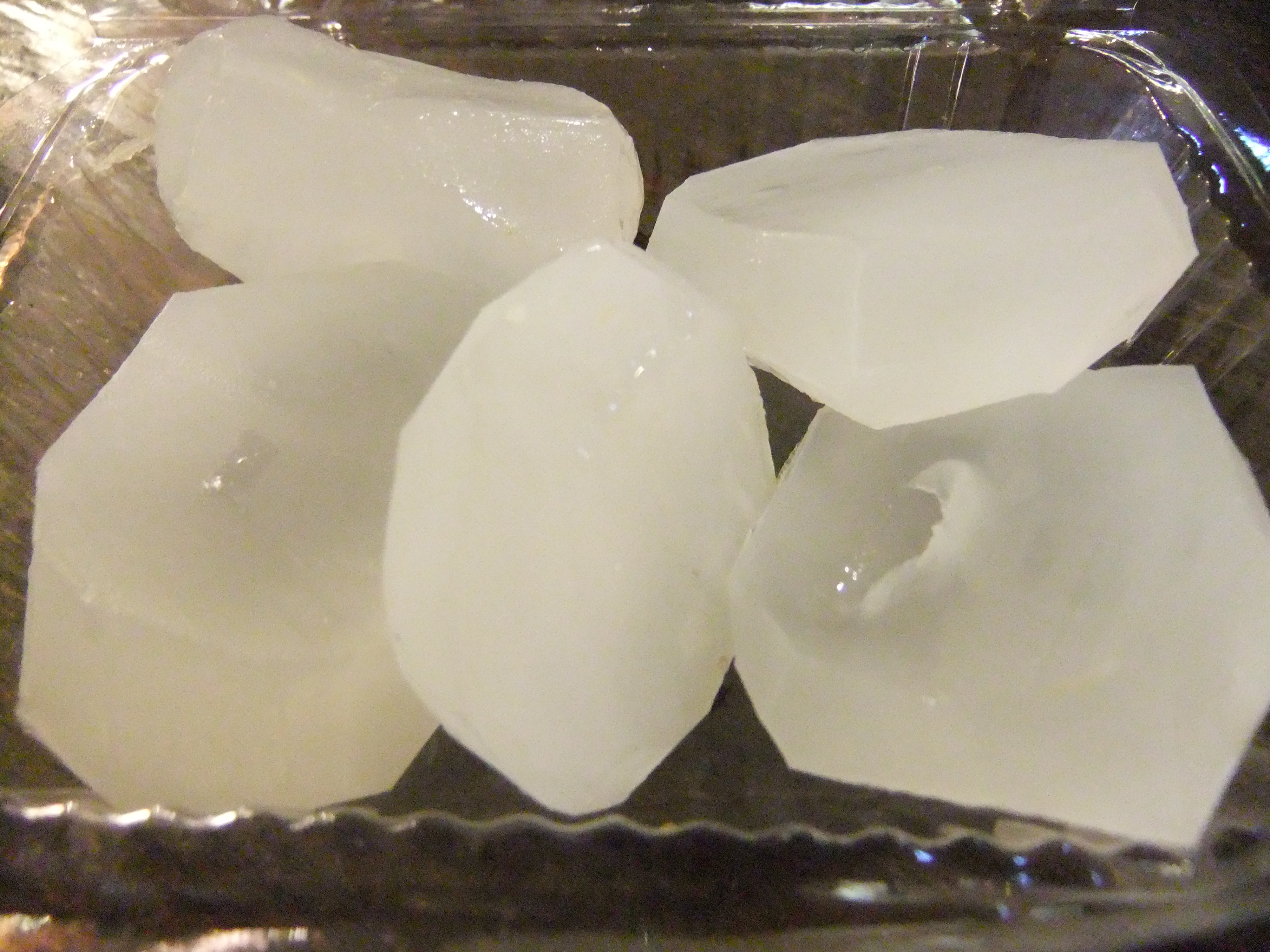 The fruits of Palmyra Palm tree, sold at Kelapa Gading shopping mall, Jakarta.